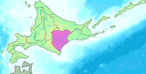 The map of Tokachi Subprefecture in Hokkaido, Japan.